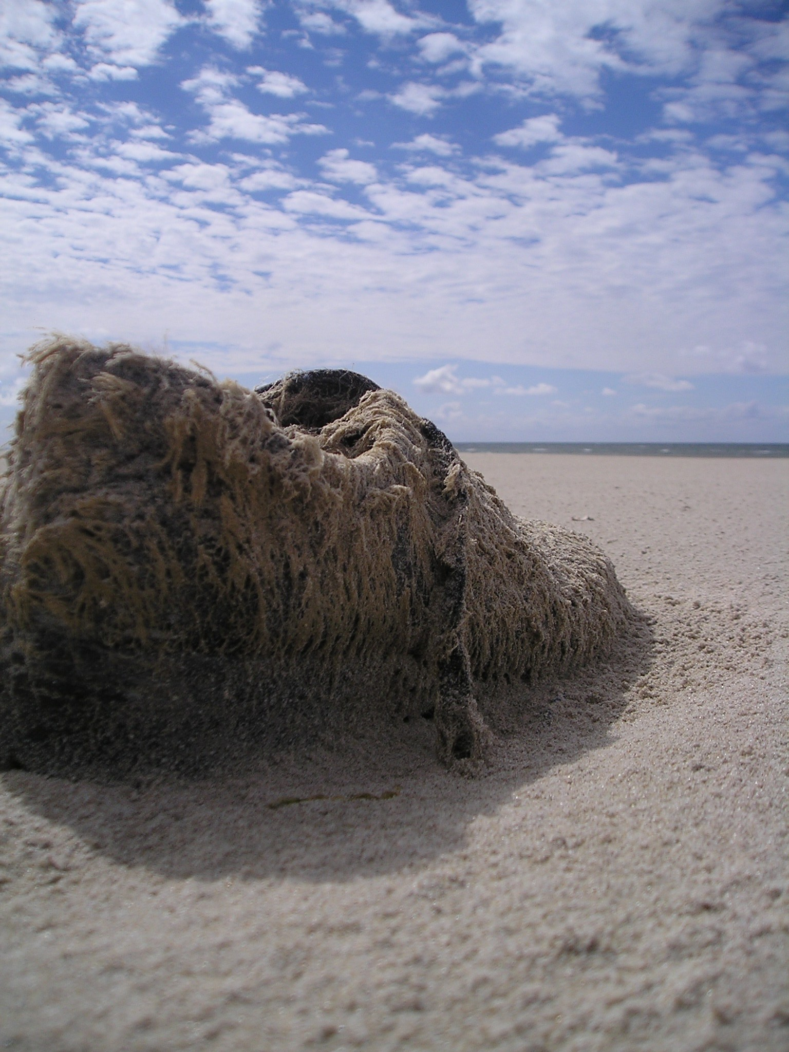 Abandoned shoe, Kåre Sand, Wadden Sea, Denmark. At low tide the seabed, including all its human left overs, becomes visible. Photo by User:bertilvidet